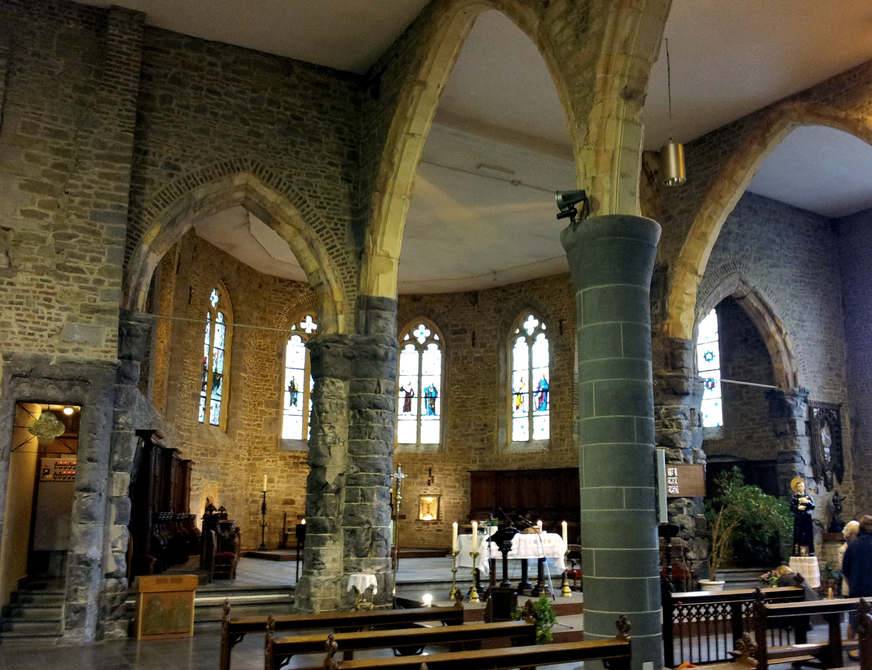 Liège, Belgium. View towards the southeast of the interior of the church of Saint Servatius.